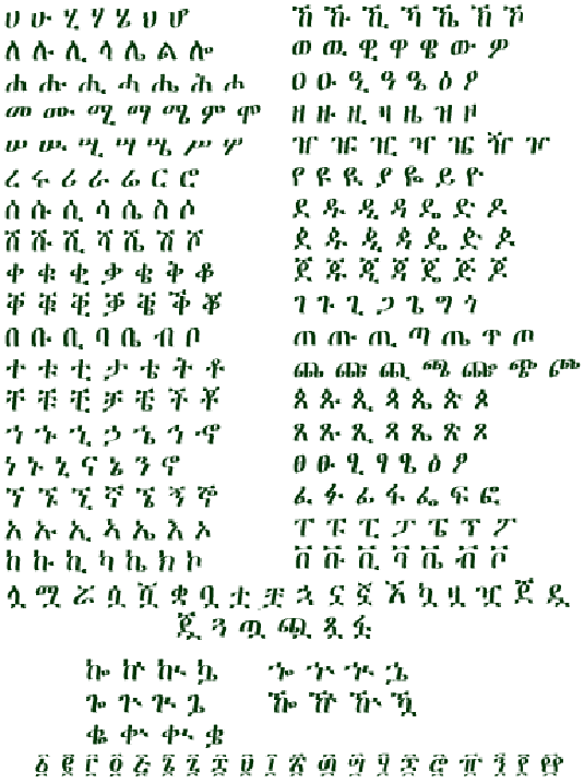 Amharic is written with a version of the Ge'ez script known as ፊደል (Fidel).